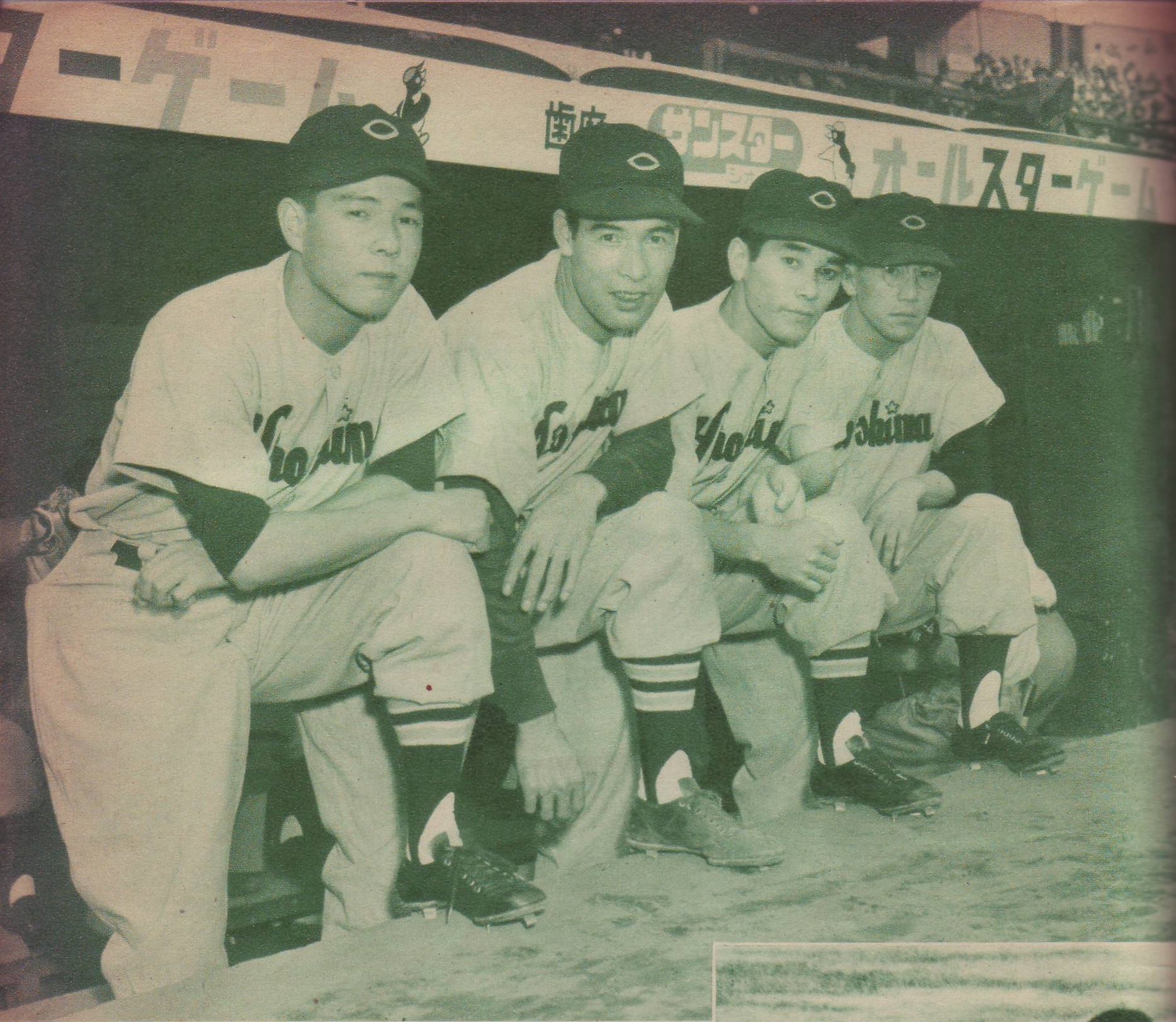 Four Hiroshima Carp player. (left) Yoshio Bizen, Makoto Kozuru, Ryohei Hasegawa, Satoshi "Fibber" Hirayama. taken in 1956.